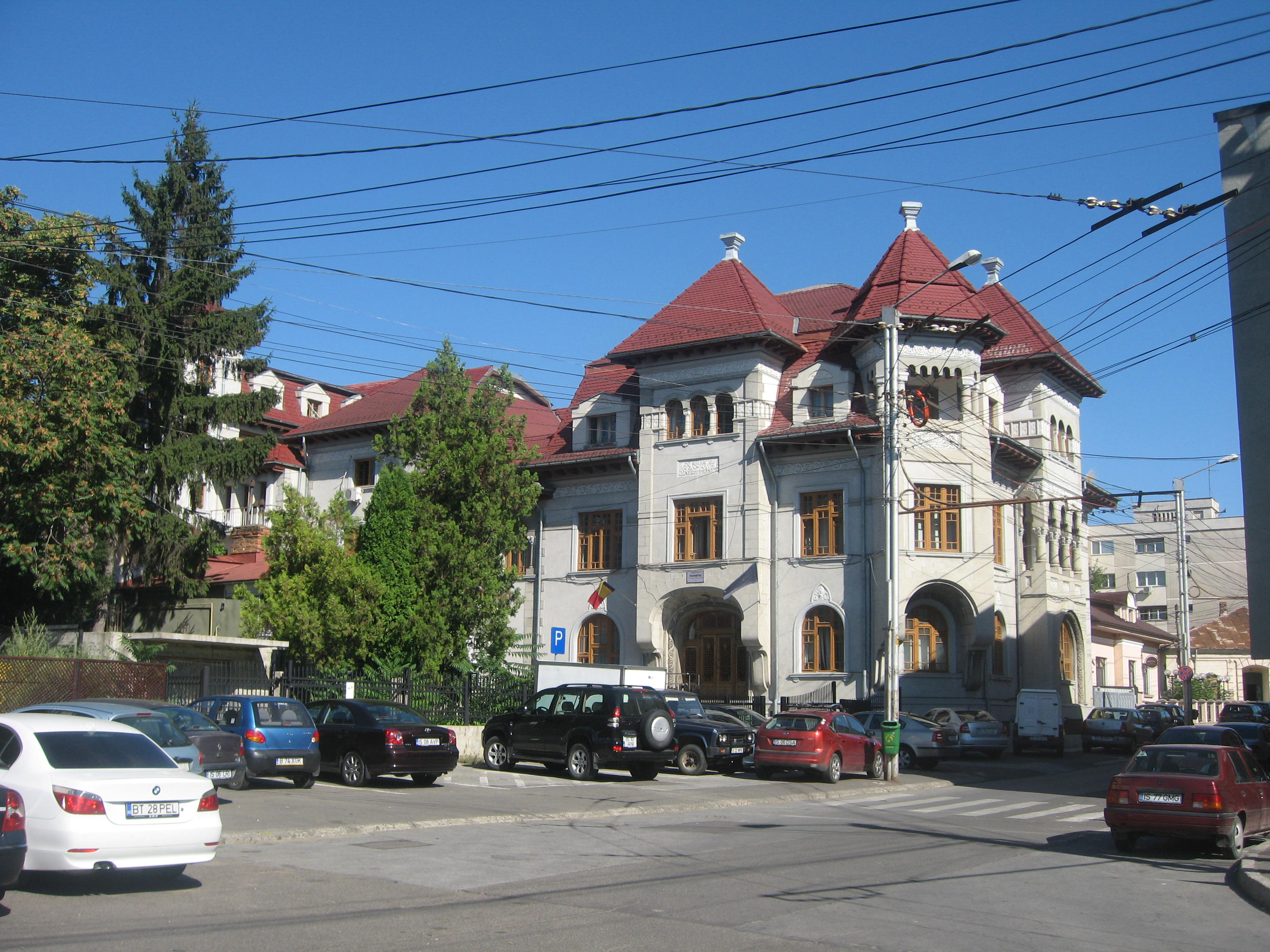 Rolla Palace in Iaşi, Romania